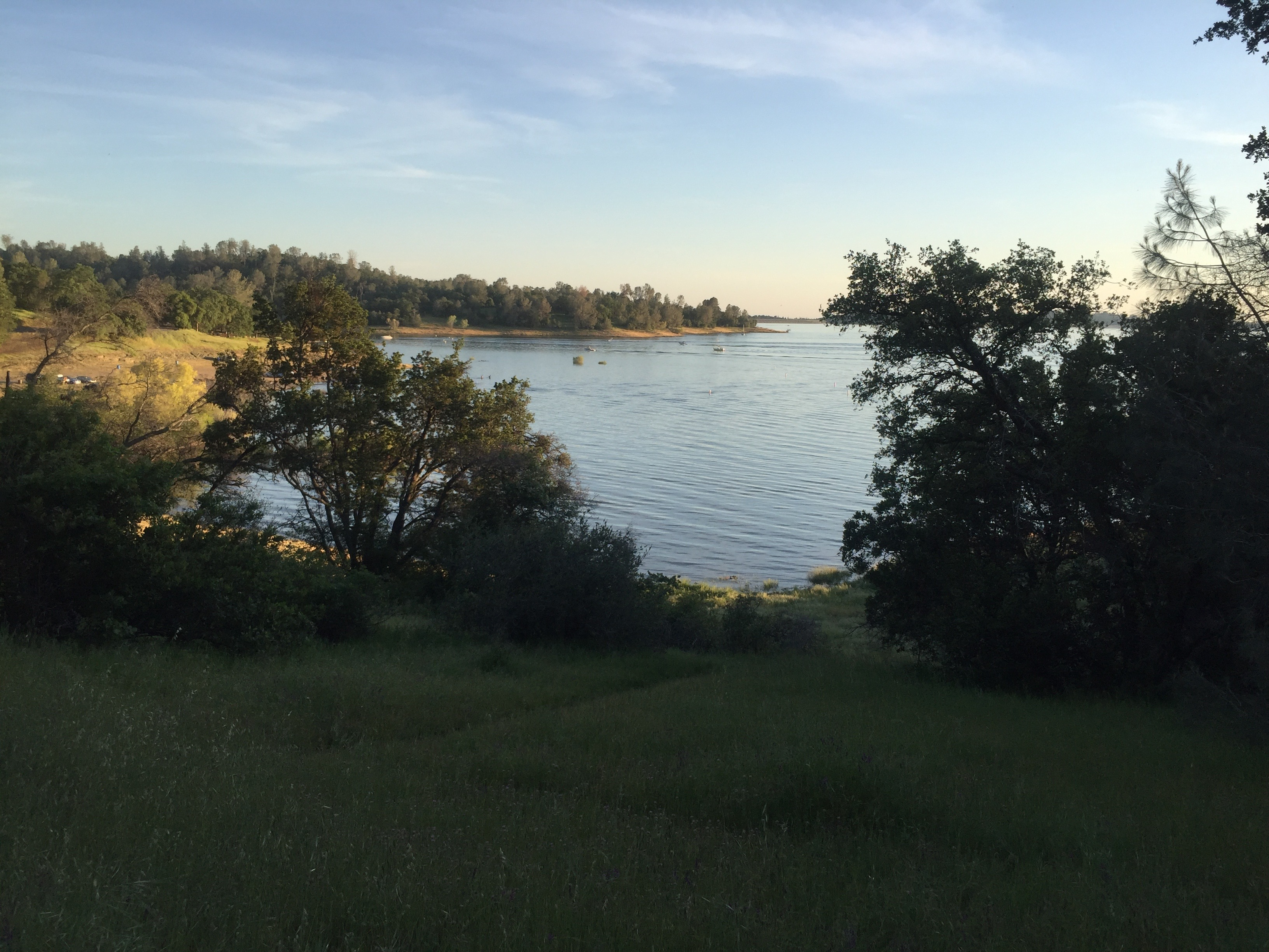 lake surrounded by some bushery